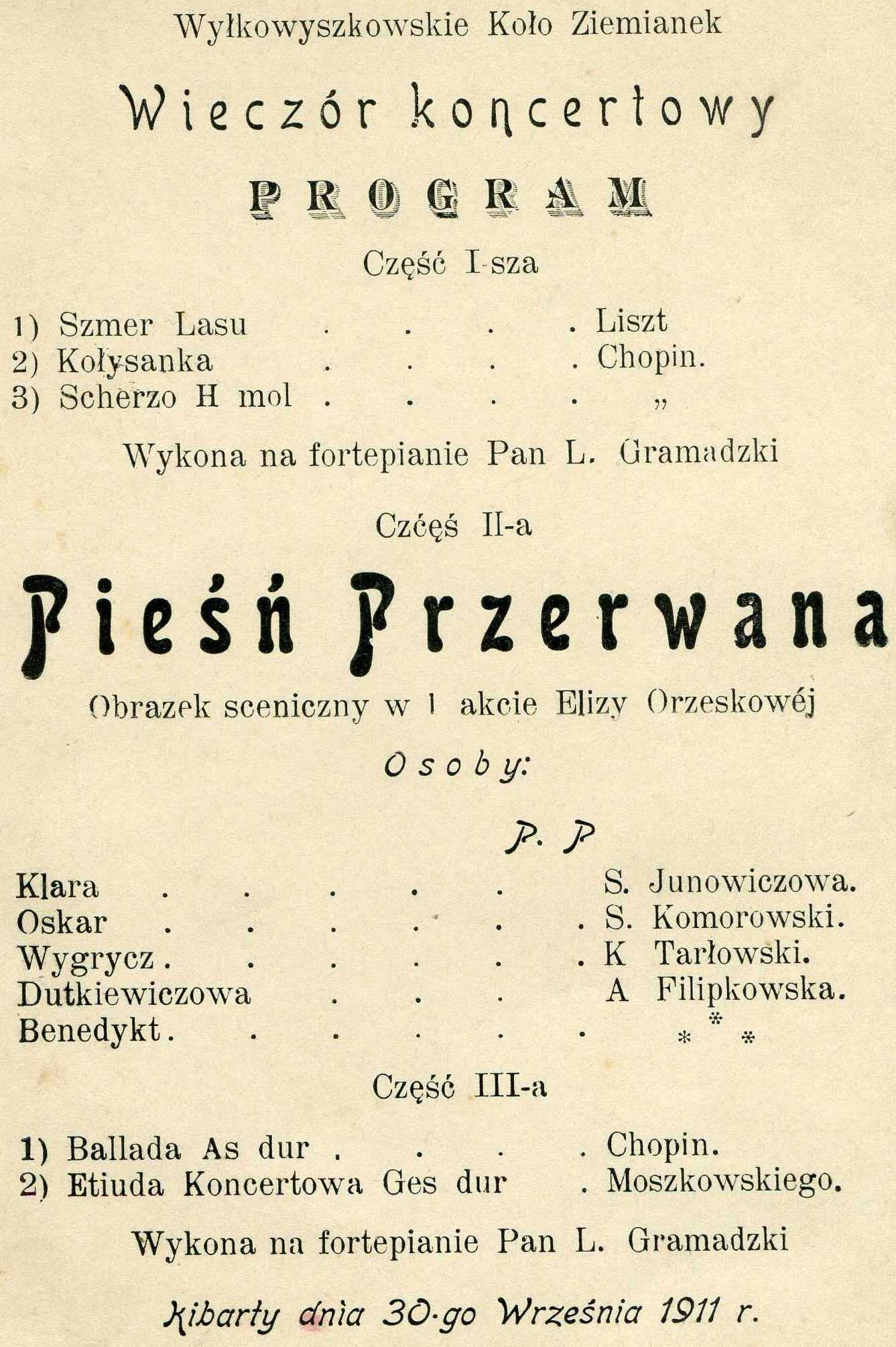 Invitation to concert and spectacle based on Eliza Orzeszkowa's play. Kibarty / Kibartai